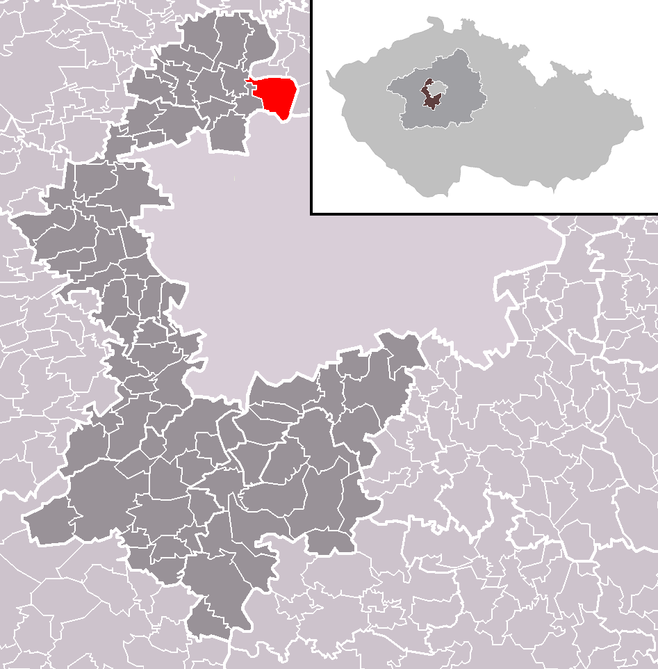 Location of Roztoky town within Prague-West District and administrative area of Černošice as a Municipality with Extended Competence.